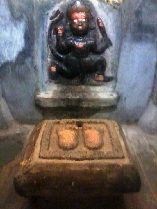 Rokadaram lad karanje